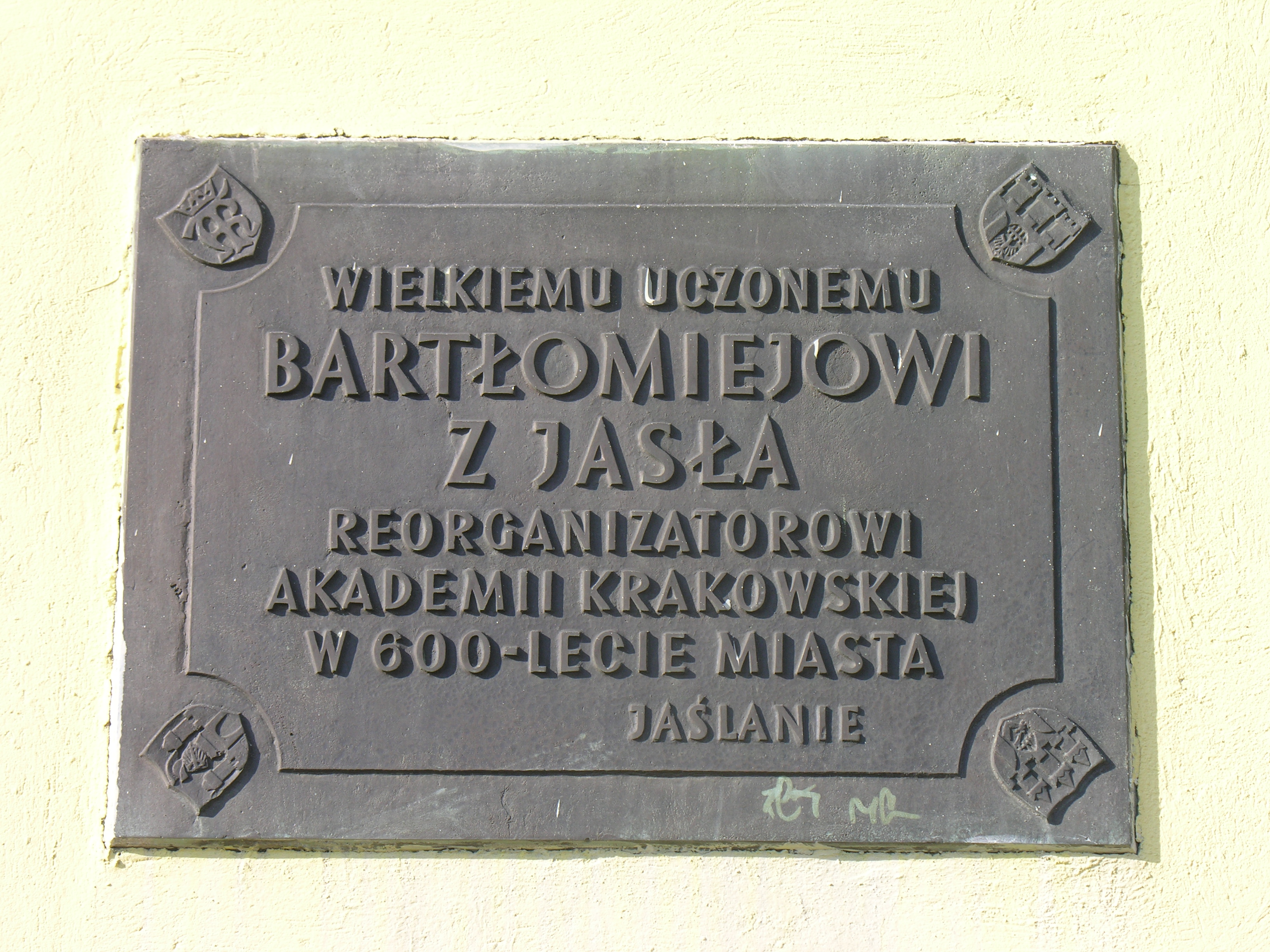 Tablica ku czci Bartłomieja z Jasła w Jaśle